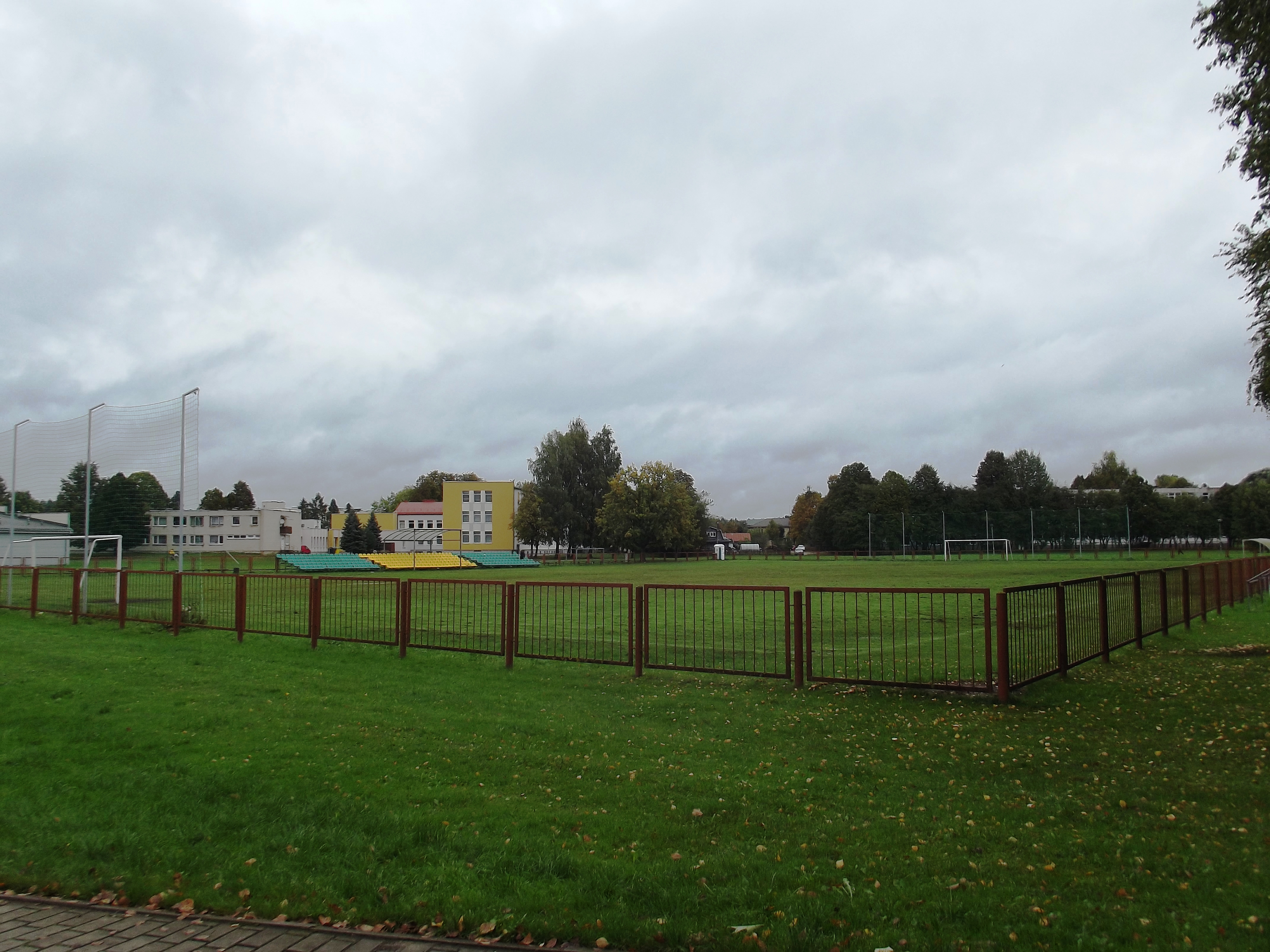 Football stadium, Kazlų Rūda, Lithuania